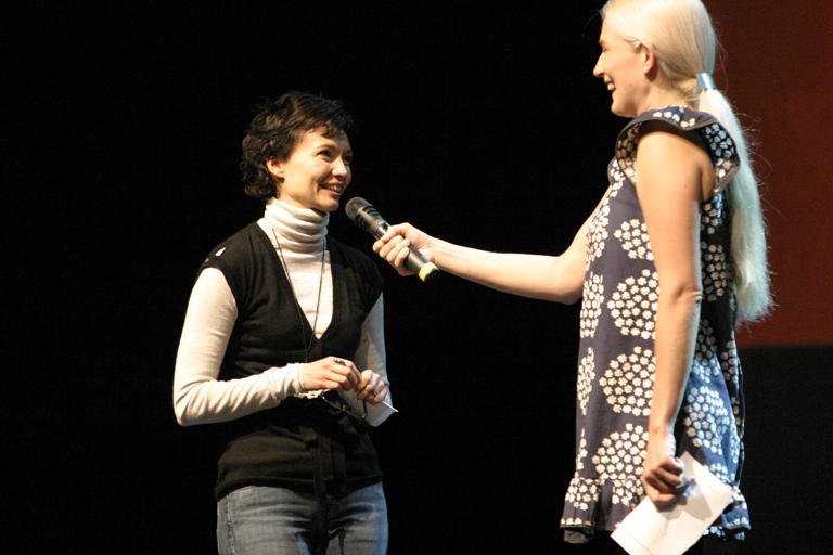 Kirsi Piha and Tuuli Kaskinen